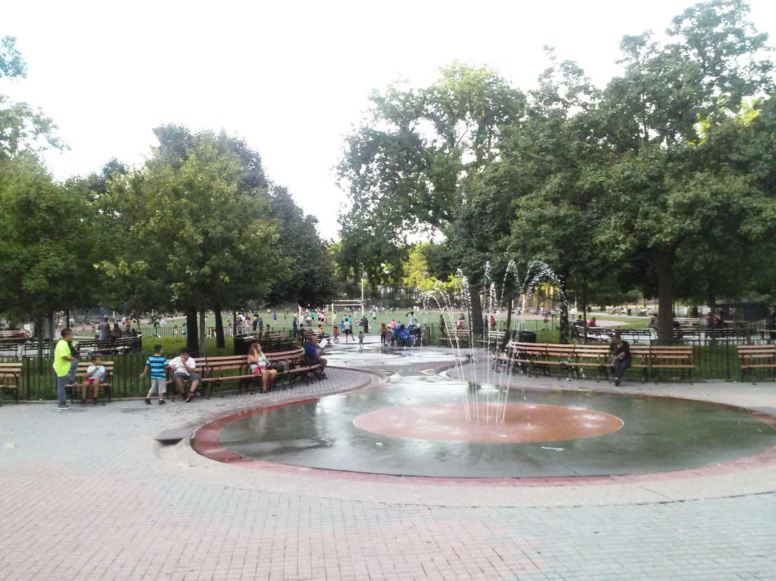 A typical July evening in Williamsbridge Oval. The view upon exiting the recreation centre at 8 P.M.